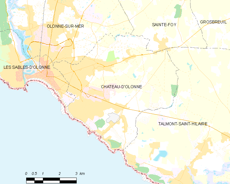 Map of French municipality Château-d'Olonne